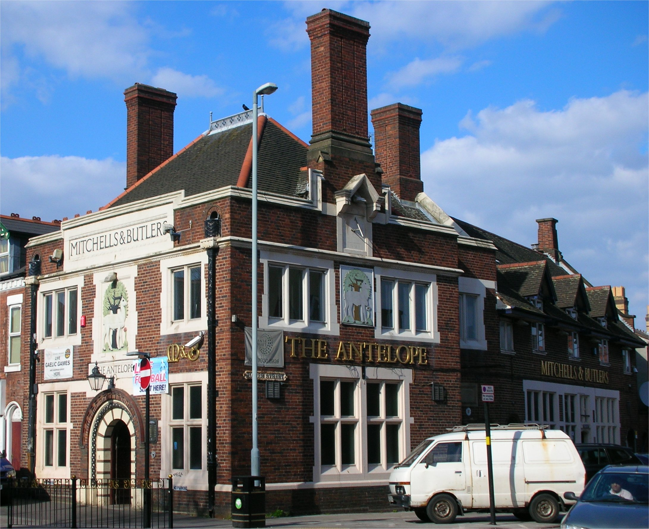 The Antelope, Stratford Road, Sparkhill, Birmingham, England. A Grade II listed public house designed by Holland W. Hobbiss with pub sign sculpted by William Bloye. Photographed by me 8 April 2007. Oosoom